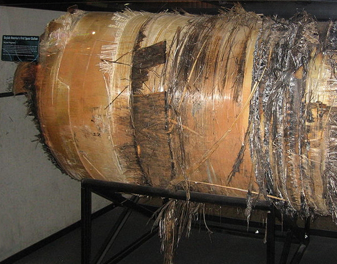 This is the largest recovered piece of the Skylab Space Station that plunged to the Earth in 1979. This fragment is one of six identical air tanks that were aboard the orbiting laboratory to supply oxygen to the crew. The oxygen tank was recovered in Australia by two men who witnessed its re-entry on wee hours of 12 July 1979. They found the tank and other small debris about 24 kilometres (15 miles) southwest of the small mining town of Rawlina. Before it crashed the tank was 2.4 metres long (8 ft), 1.2 metres (4 ft) in diameter and weighted 1,270 kilograms (2,800 pounds) empty. On loan from KARA international of Australia. Photo taken at US Space and Rocket Center, Huntsville, Alabama.